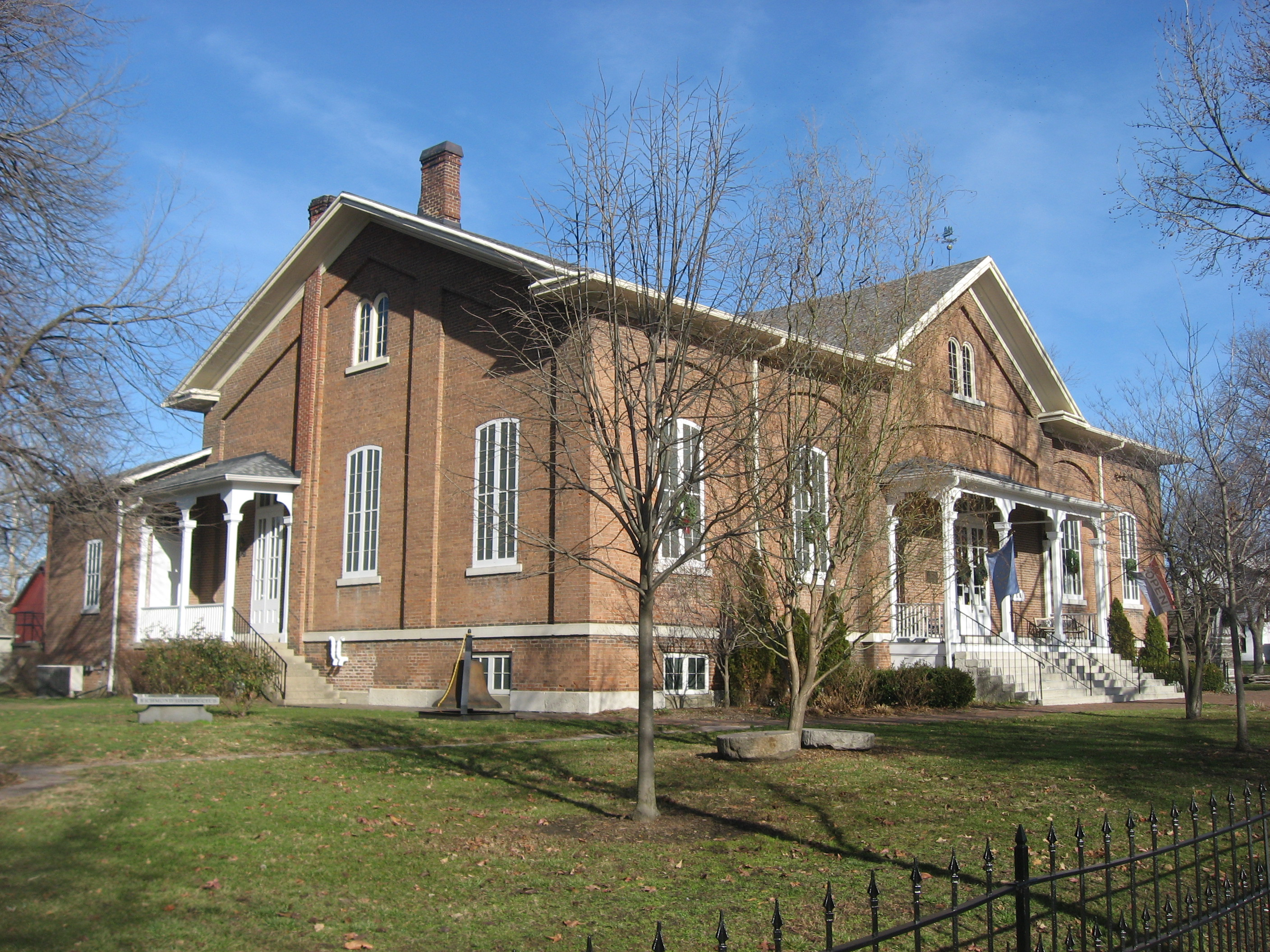 Front and western side of the Hicksite Friends Meetinghouse (now the Wayne County Historical Museum), located at 1150 N. A Street (U.S. Route 40) in Richmond, Indiana, United States. Built in 1865, the church is listed on the National Register of Historic Places, and it is part of a Register-listed historic district, the Starr Historic District.